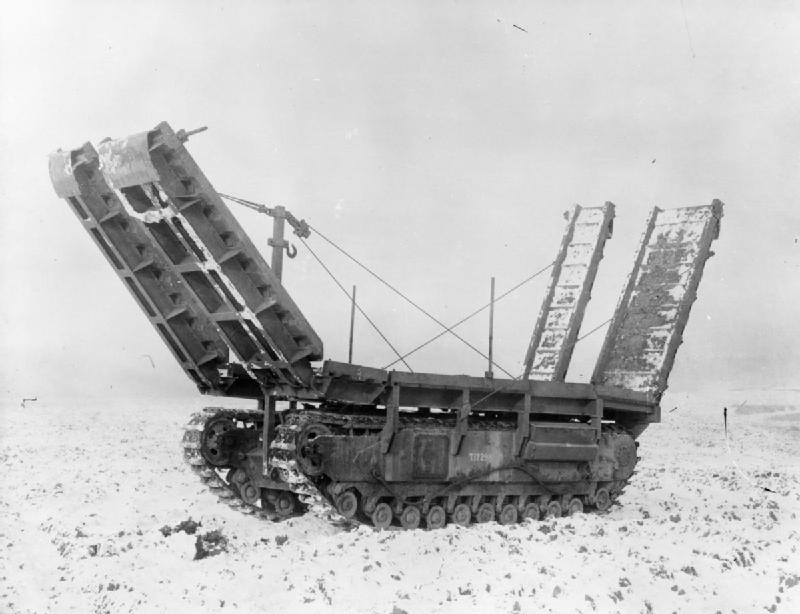 Churchill Ark Mk II (UK pattern) bridging vehicle.